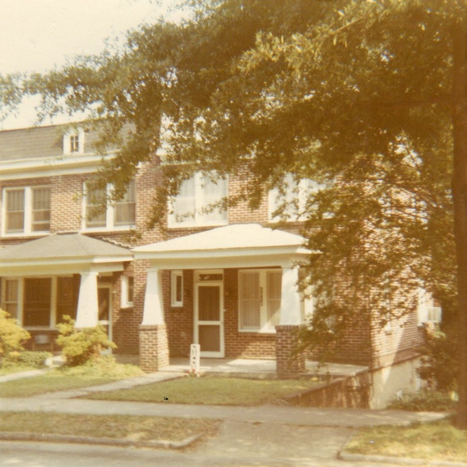 1810 Green(e) Street, Columbia, South Carolina, with part of 1812 visible on the left